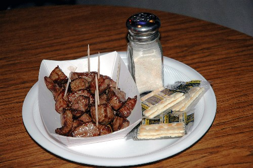 Plate of beef chislic from "The Keg" restaurant in Sioux Falls, SD.